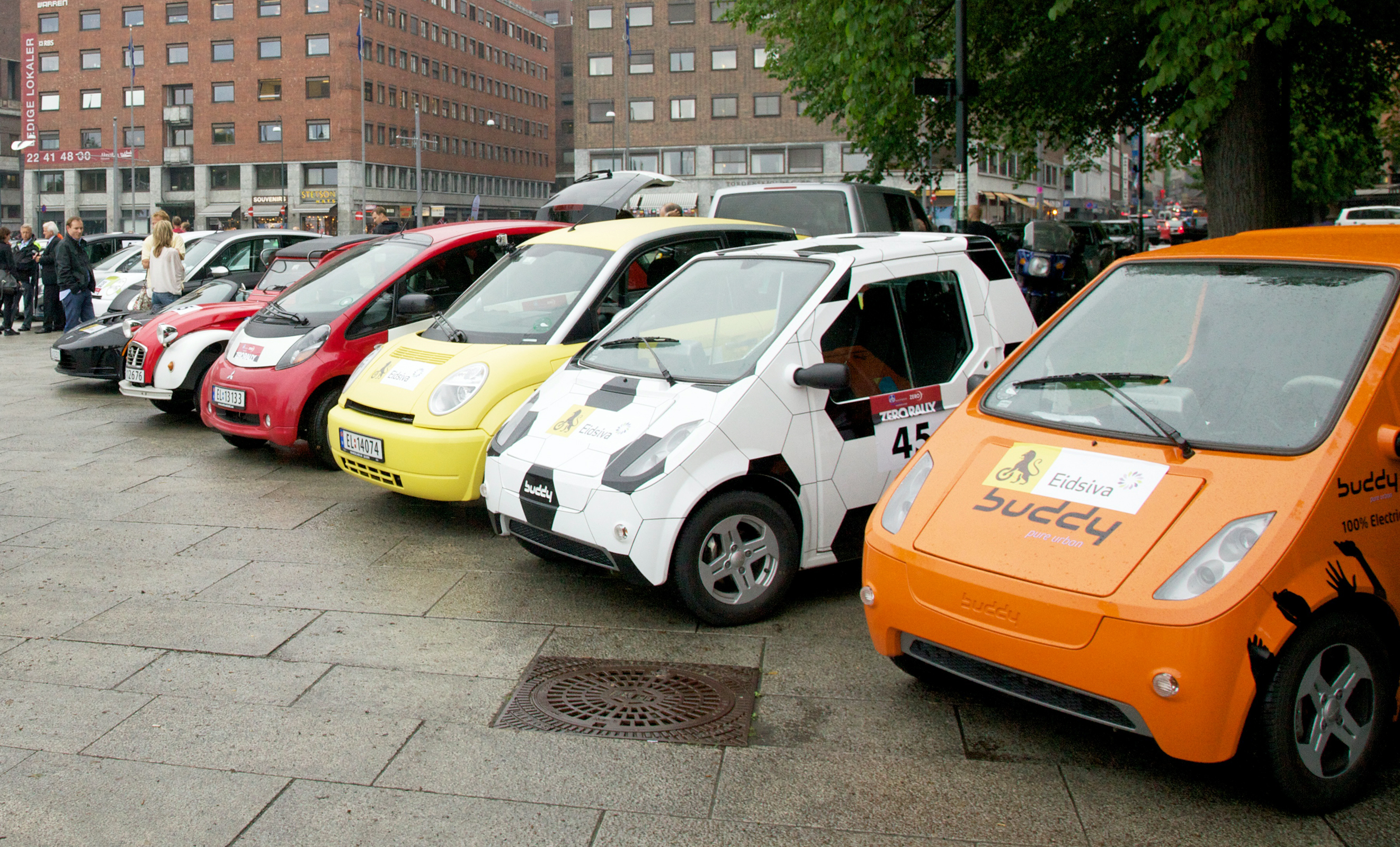 A Th!nk City, a Mitsubishi i-MiEV and several Buddy electric cars participating at the Zero Rally 2011, Oslo Norway